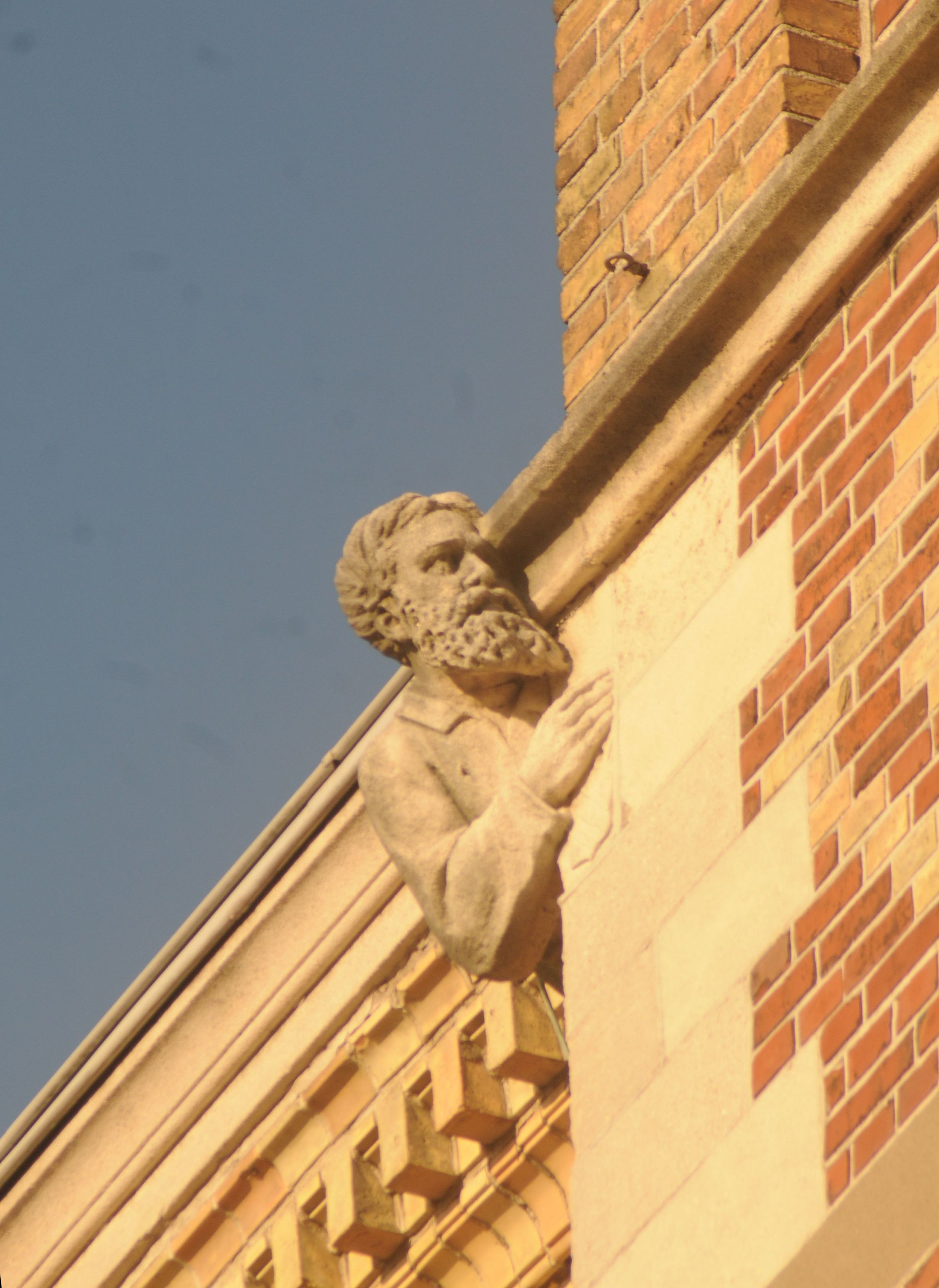 Victor de Stuers at the Rijksmuseum, backside, next to the tunnel.